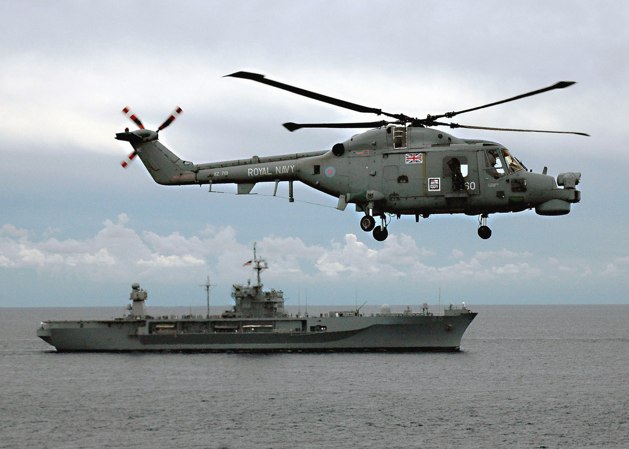 A Royal Navy Lynx HMA.8 helicopter, 702 Squadron (based at RNAS Yeovilton, United Kingdom), flies near the US Sixth Fleet flagship Blue Ridge Class Amphibious Command Ship USS Mount Whitney (LCC-20) on the Mediterranean Sea during Exercise DESTINED GLORY (Loyal Midas) 2005. The exercise was a medium-scale NATO amphibious live exercise designed to certify selected NATO units and assigned forces.